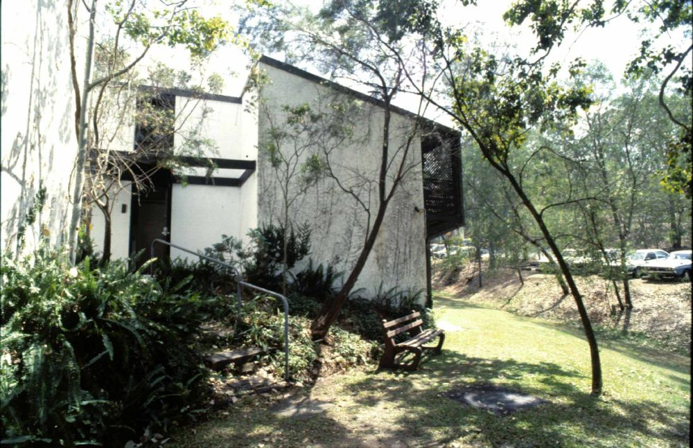 Student Residences, QUT Kelvin Grove Campus - grounds